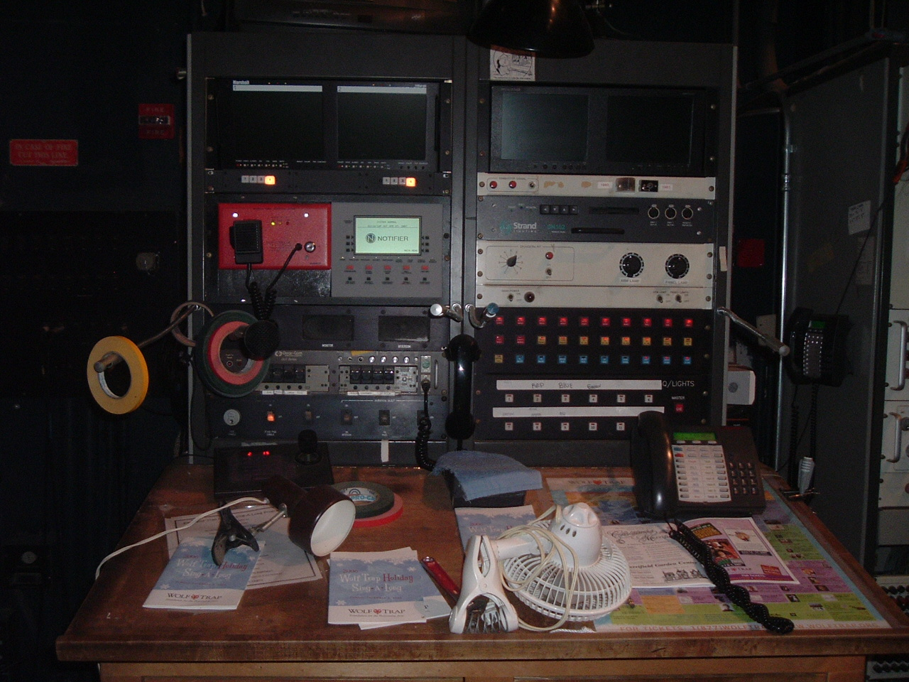 Photo of part of the production manager's panel at Wolf Trap Center for the Performing Arts/National Park